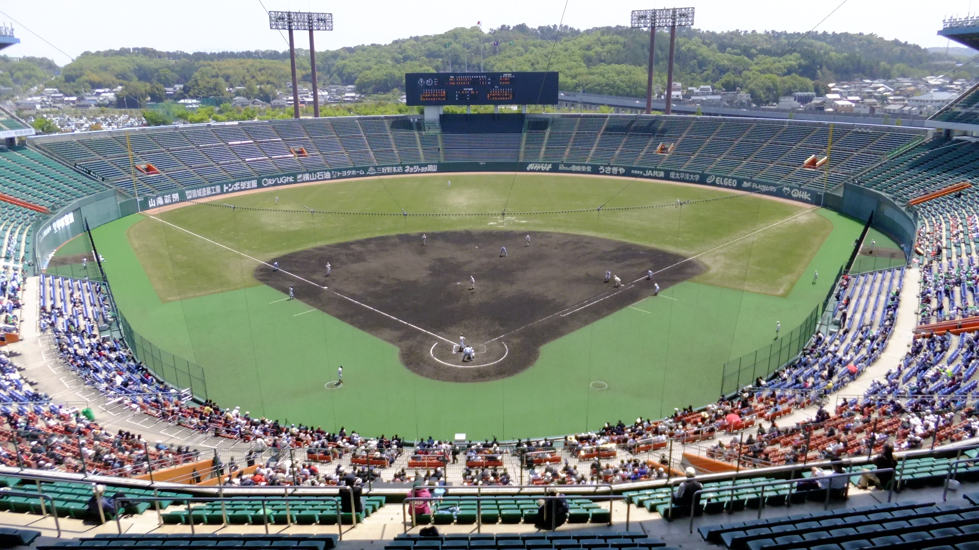 Muscat stadium seen from seats behind the plate